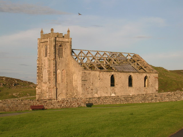 Kilchoman Church